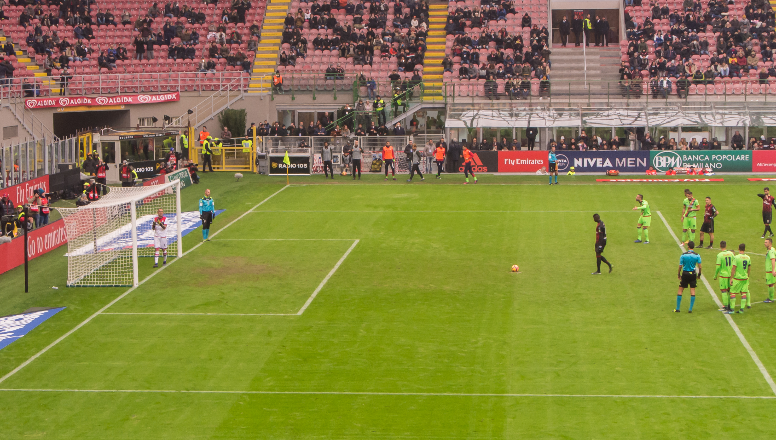 M'Baye Niang preparing to take out a penalty during the Serie A game AC Milan - FC Crotone, on the 4th of December 2016.